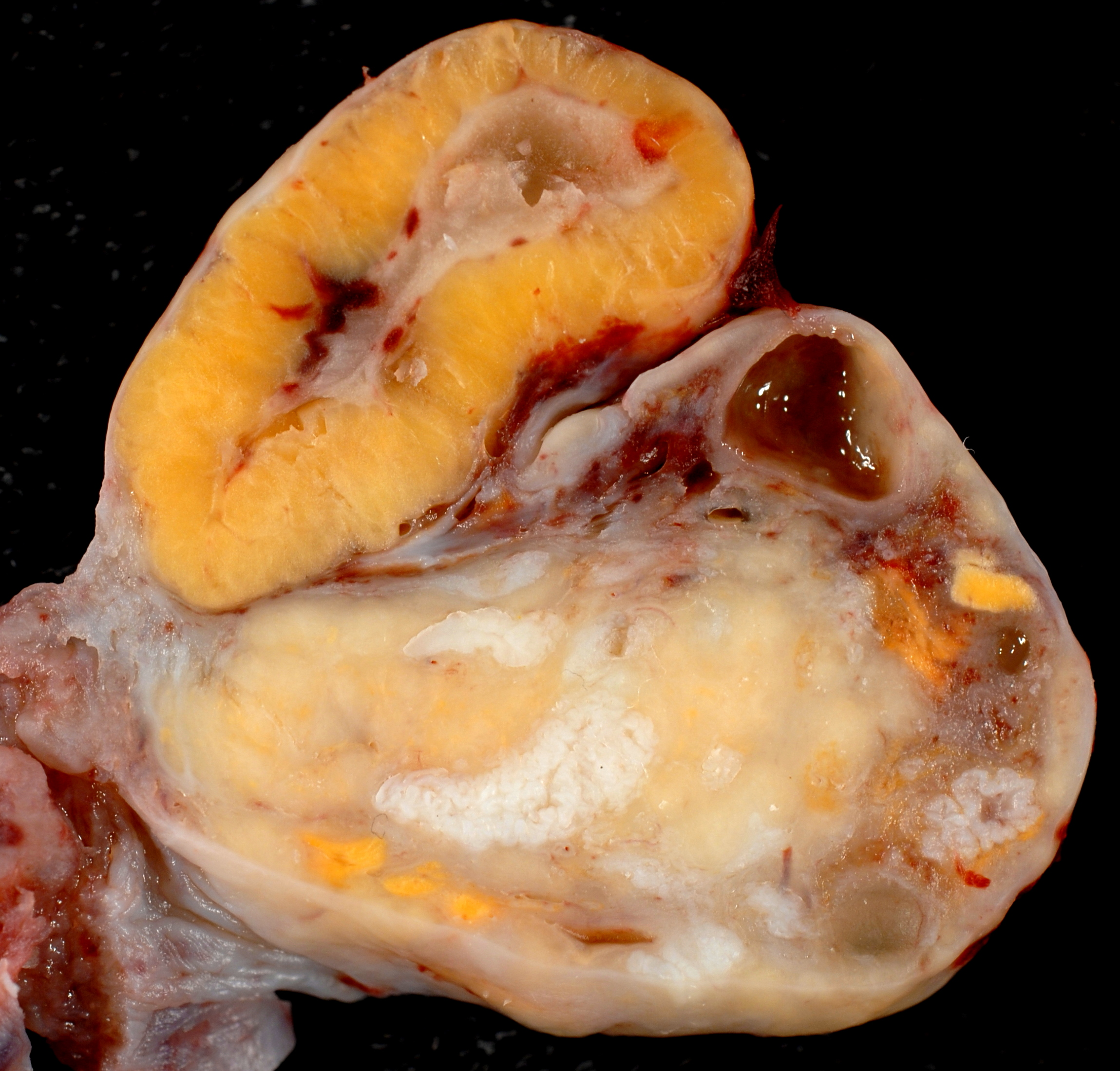 This normal ovary was removed in the course of a hysterectomy for uterine disease. The bright yellow corpus luteum is fully developed, as it would be in the mid-luteal phase of the menstrual cycle following ovulation. The corpus luteum produces progesterone, which supports the endometrium's ability to accommodate the implanted conceptus. If a conceptus implants, the corpus luteum grows even bigger, to form the so-called "corpus luteum of pregnancy." If no pregnancy occurs, the corpus luteum shrinks dramatically to become a corpus albicans. This ovary also sports several corpora albicantia from previous months' cycles, one of which is marked.